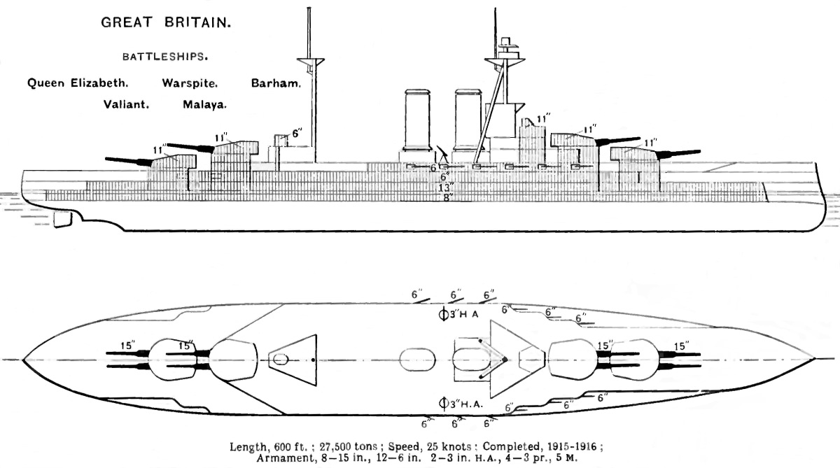 Right elevation and deck plan of British Queen Elizabeth class battleship. Numbers on top diagram show armour thickness (shaded areas) in inches. Numbers on bottom diagram show size of guns in inches.